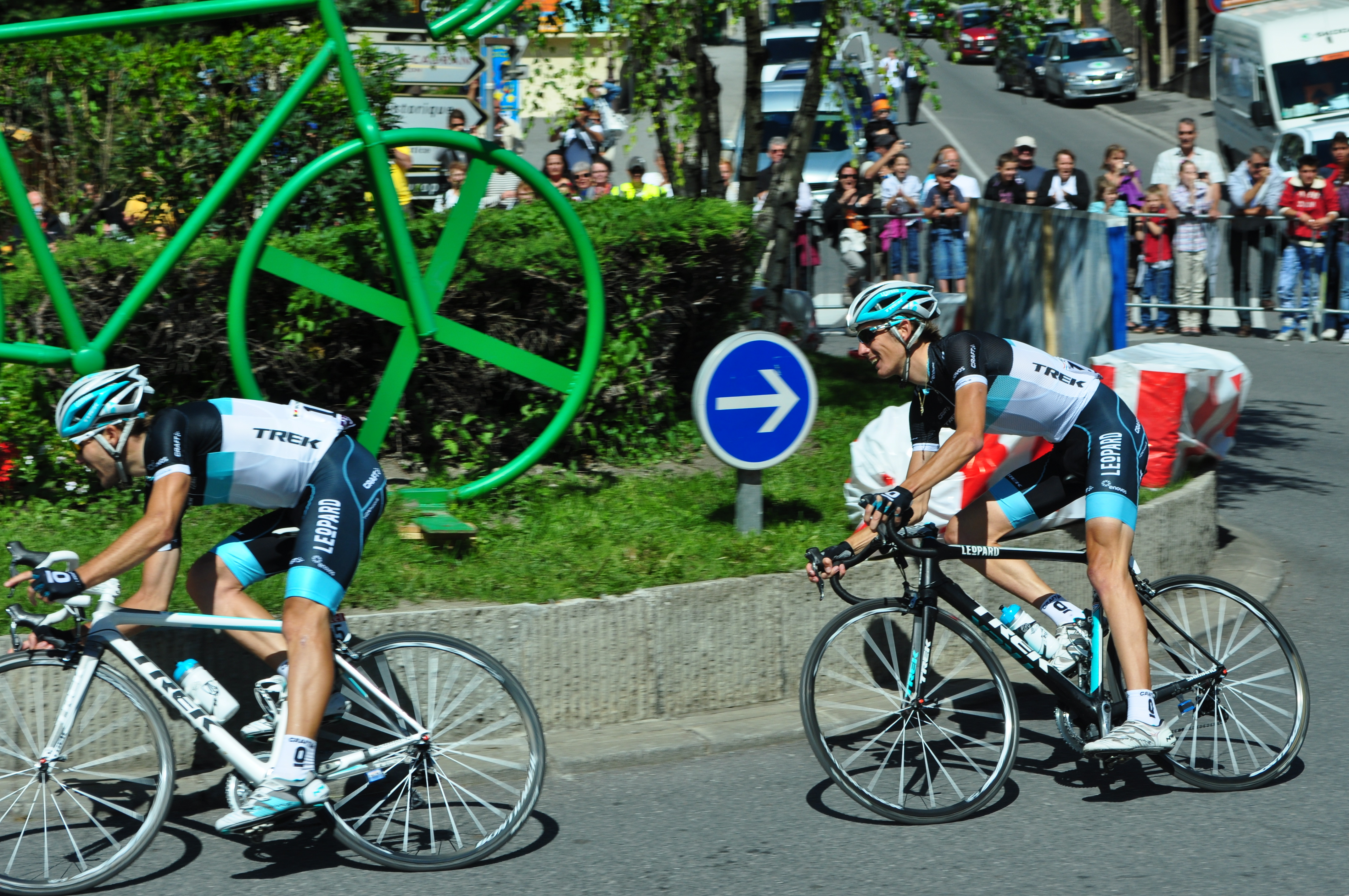 Maxime Monfort leads Andy Schleck up Briancon during stage 18 of the 2011 Tour de France.